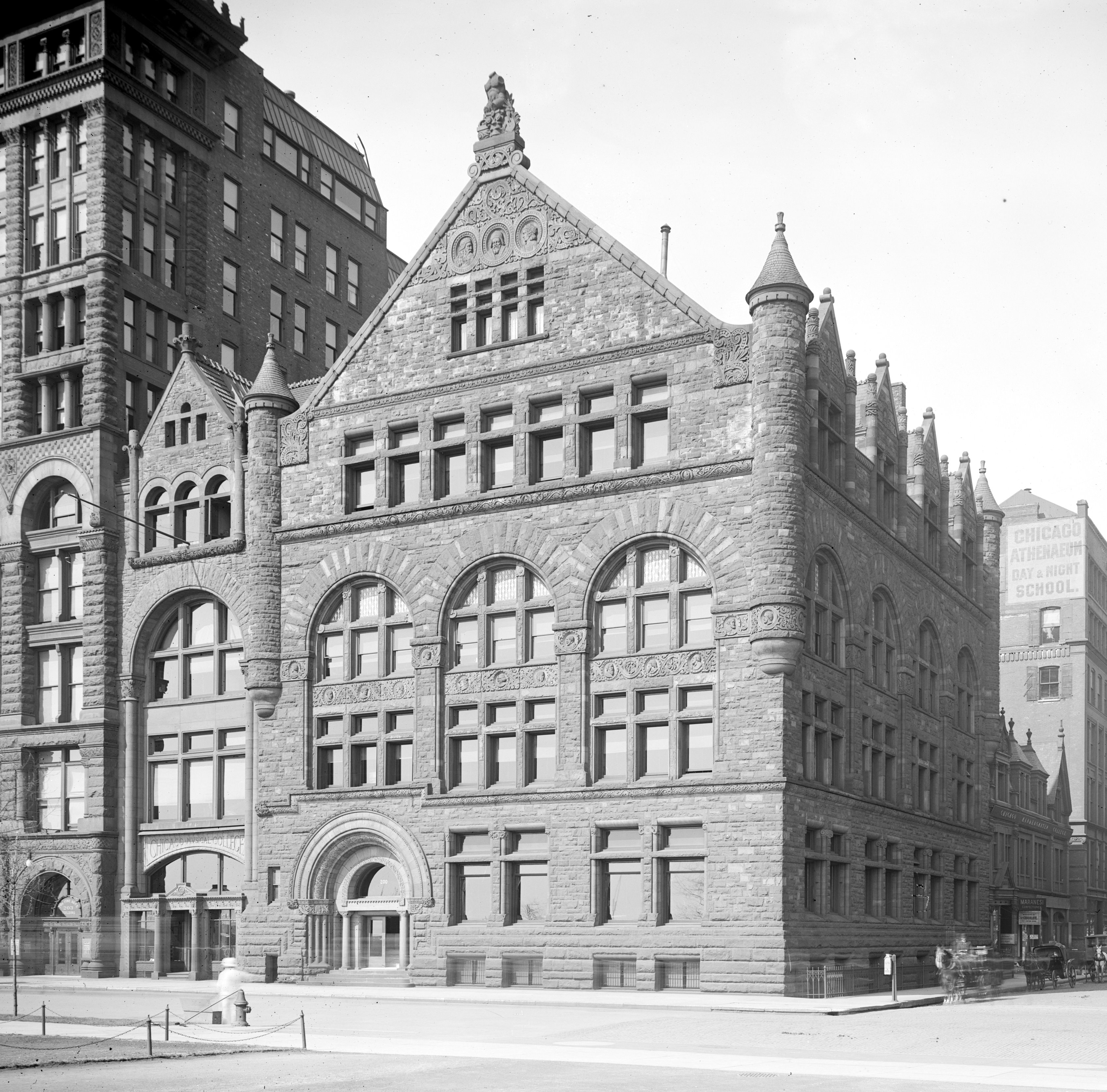 The building at 400 South Michigan Avenue at Van Buren was built in 1886-87 and designed by Burnham & Root for the Art Institute of Chicago. When the Institute moved across the street in 1892, it was bought by the Chicago Club as their fourth clubhouse, and served as that until it collapsed during remodelling in the 1920s. A new buidling was constructed on the site in 1929, designed by Granger and Bollenbacher, and the Burham & Root triple-arched entrance was retained, but moved around the corner, to 81 East Van Buren Street. (Source: "About the Club" onthe Chicago Club website])